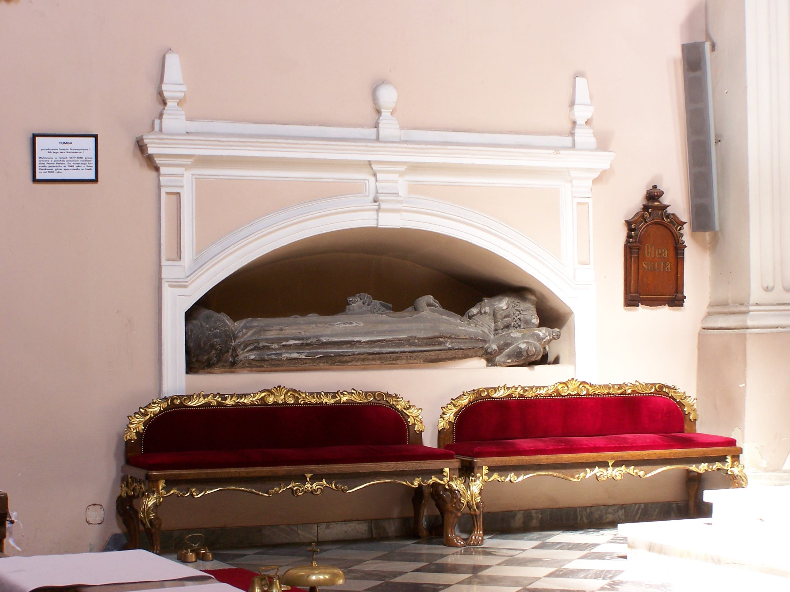 Church of Saint Mary Magdalene in Cieszyn.